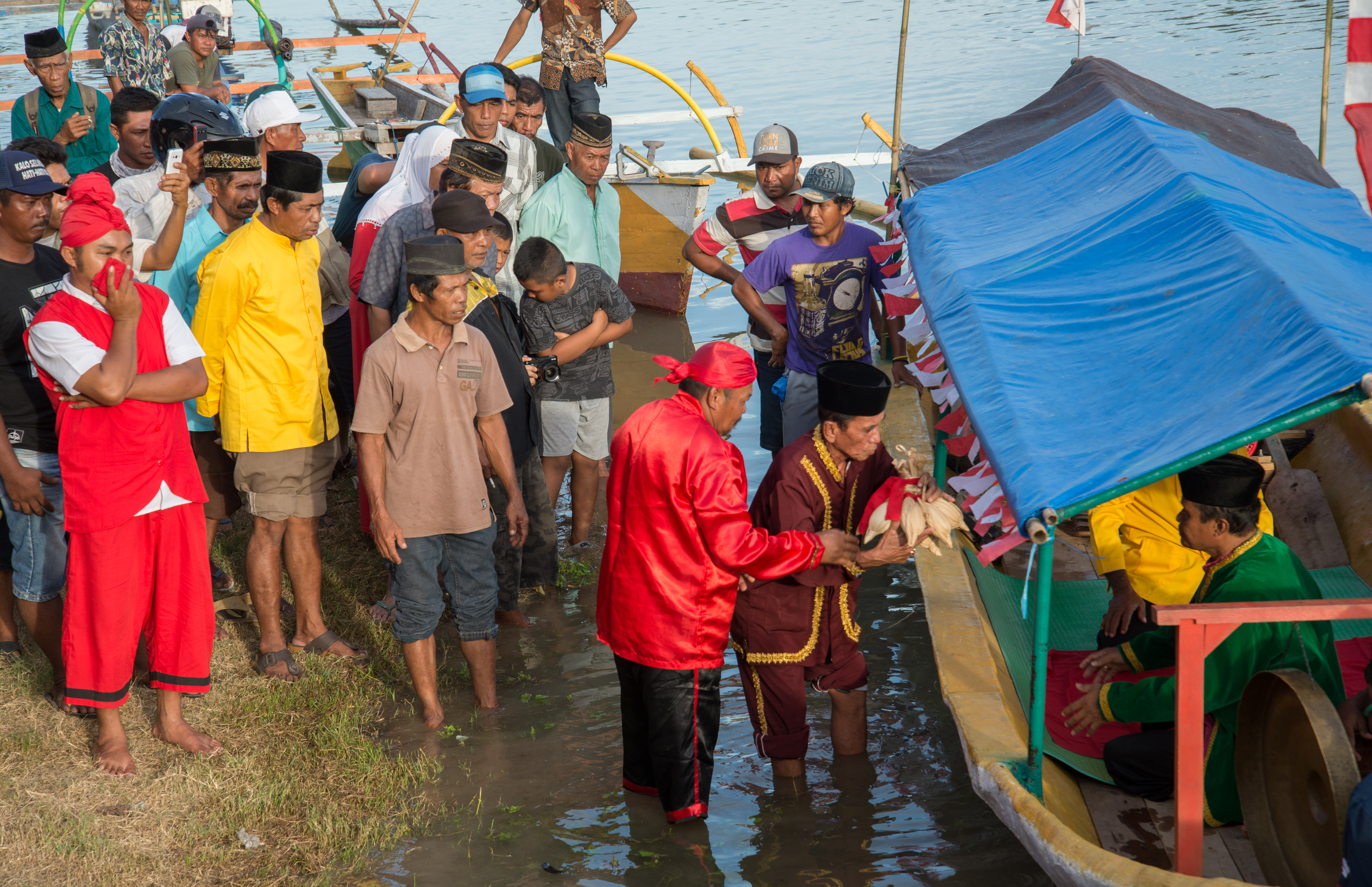 Malabot tumpe of Banggai tribes.